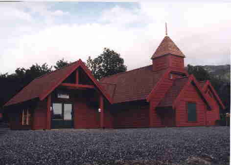 The main building at the bakery meseum in Vikebygd, Norway. This building was finished in 1997, and was build to look like a church. It even has a big bell in the tower. Own picture.